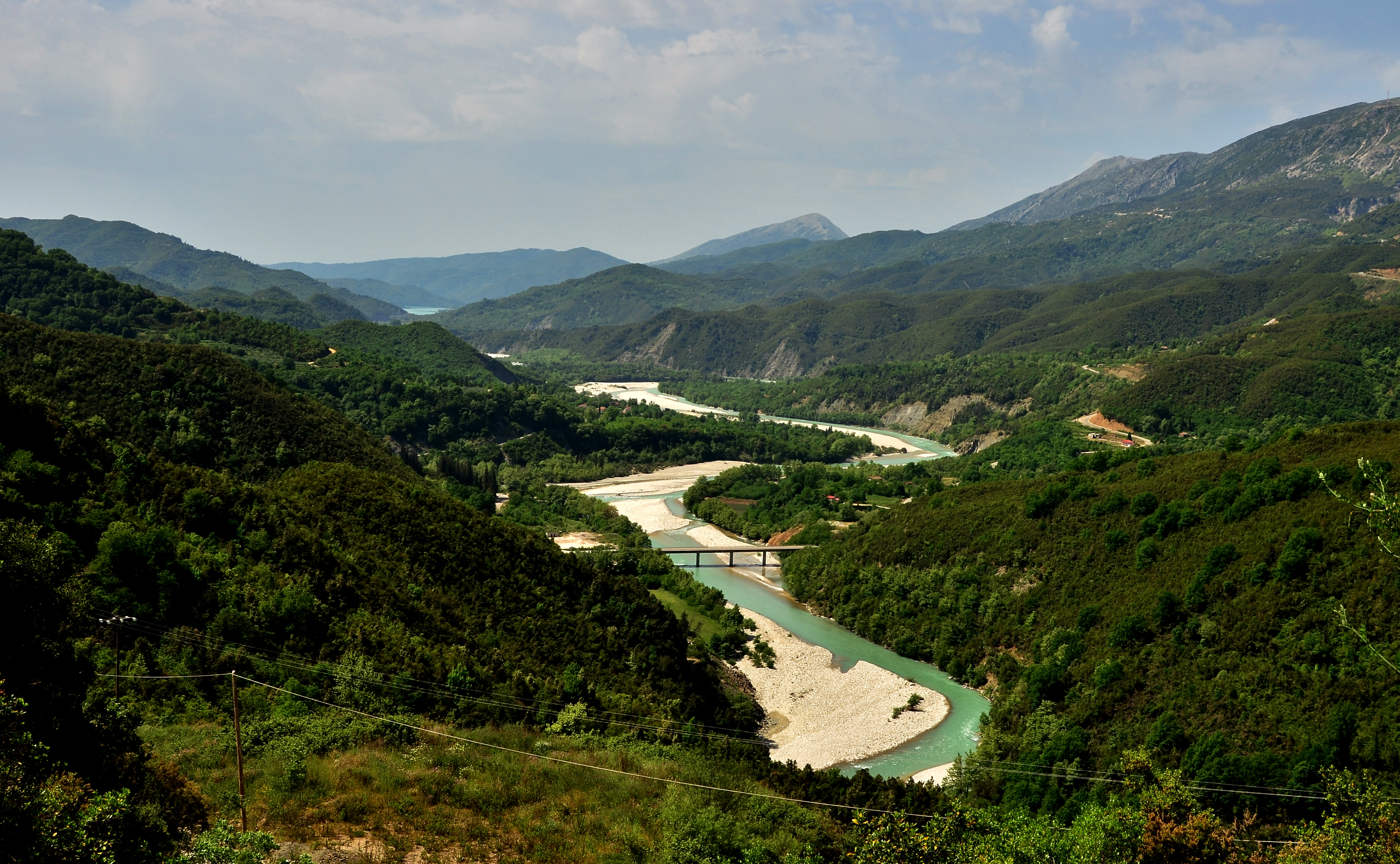 Arachthos river. In the foreground is Tzaris bridge and in the background the Pournari reservoir.